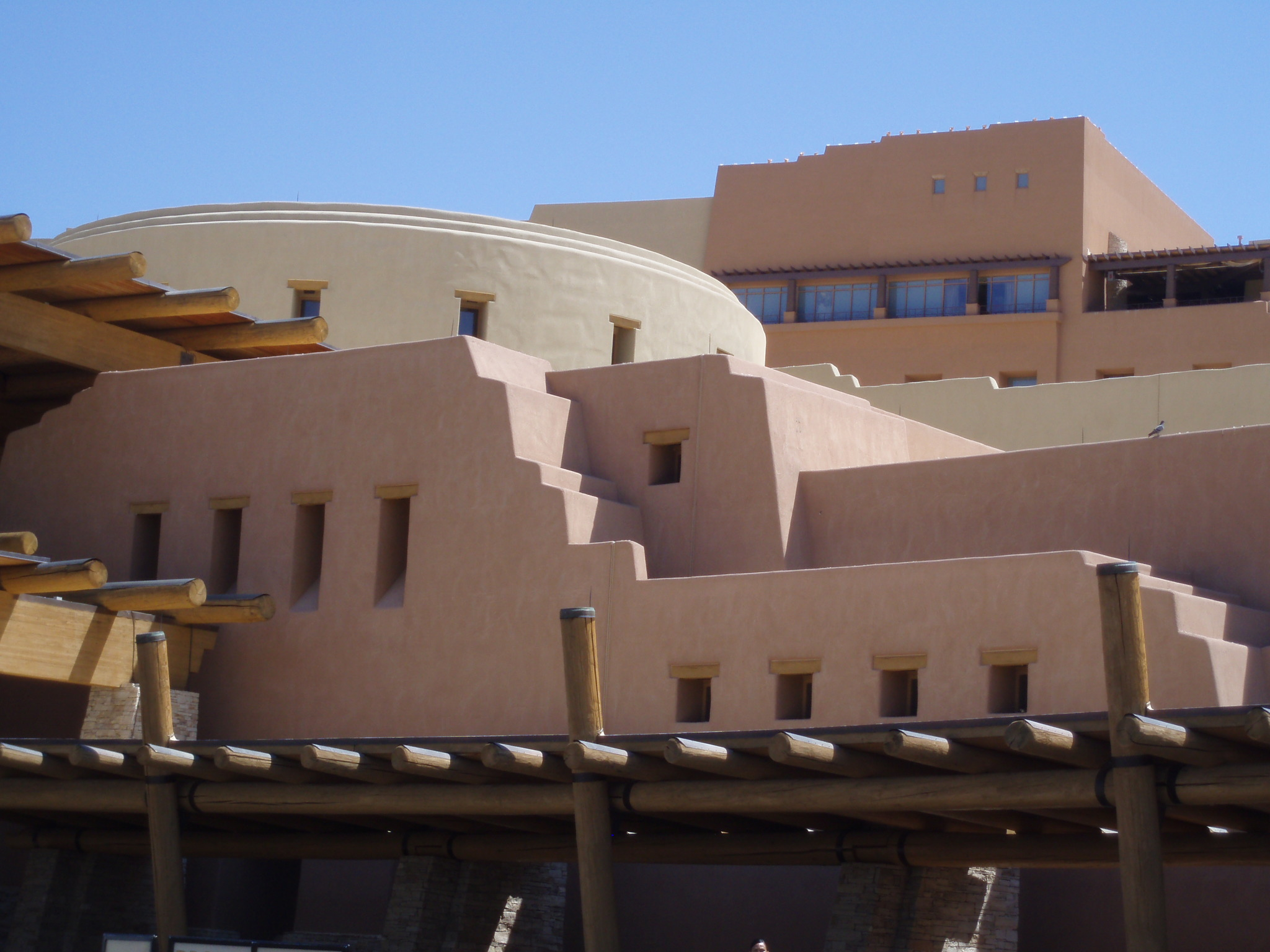 The round part is built to look like a kiva, which is part of a Native American Pueblo. The taller building is the top of the hotel. The windows on that part and the wooden covering to the right is one of the restaurants, supposedly very good but too expensive for me to ever find out. :)